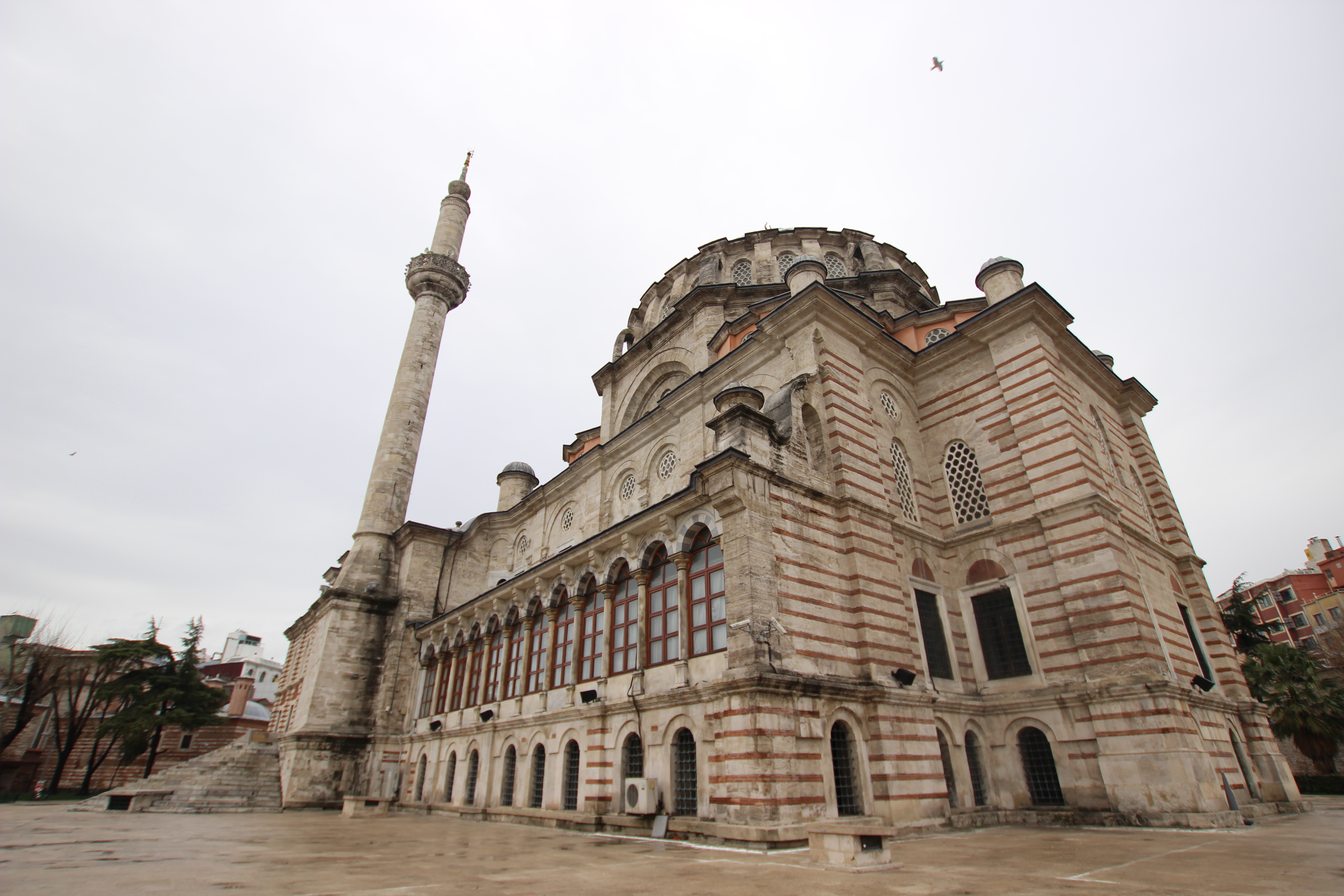 Laleli Mosque